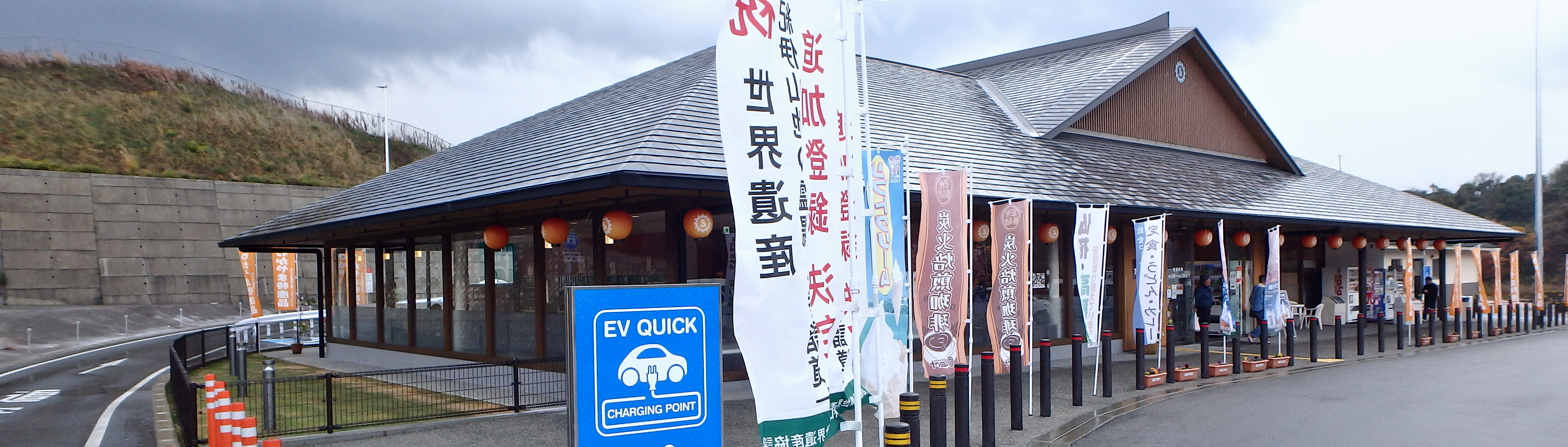 Katsuragi-west Parkig Area (for Wakayama),Wakayama prefecture,Japan